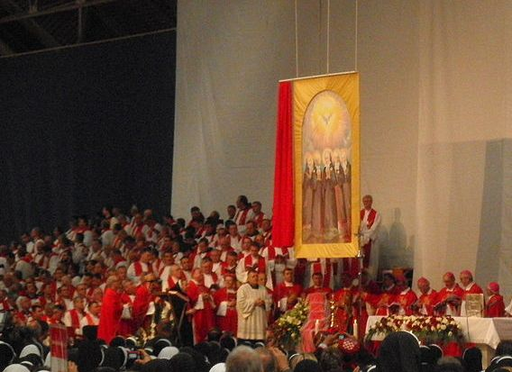 Drina Martyrs beatification in Sarajevo